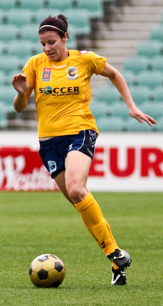 Renee Rollason playing for the Central Coast Mariners against Melbourne Victory in Round 10 of the 2008 W-League.